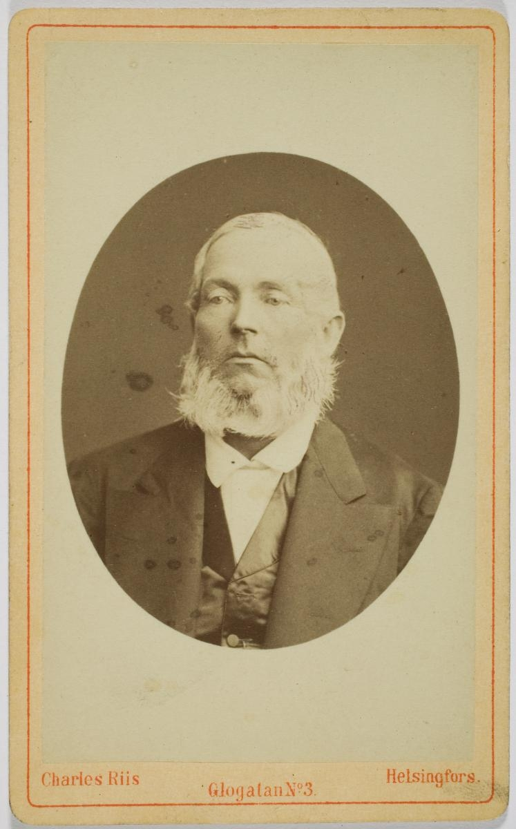 Photograph of the Finnish priest Gustaf Reinhold Blomqvist (1813–1876).